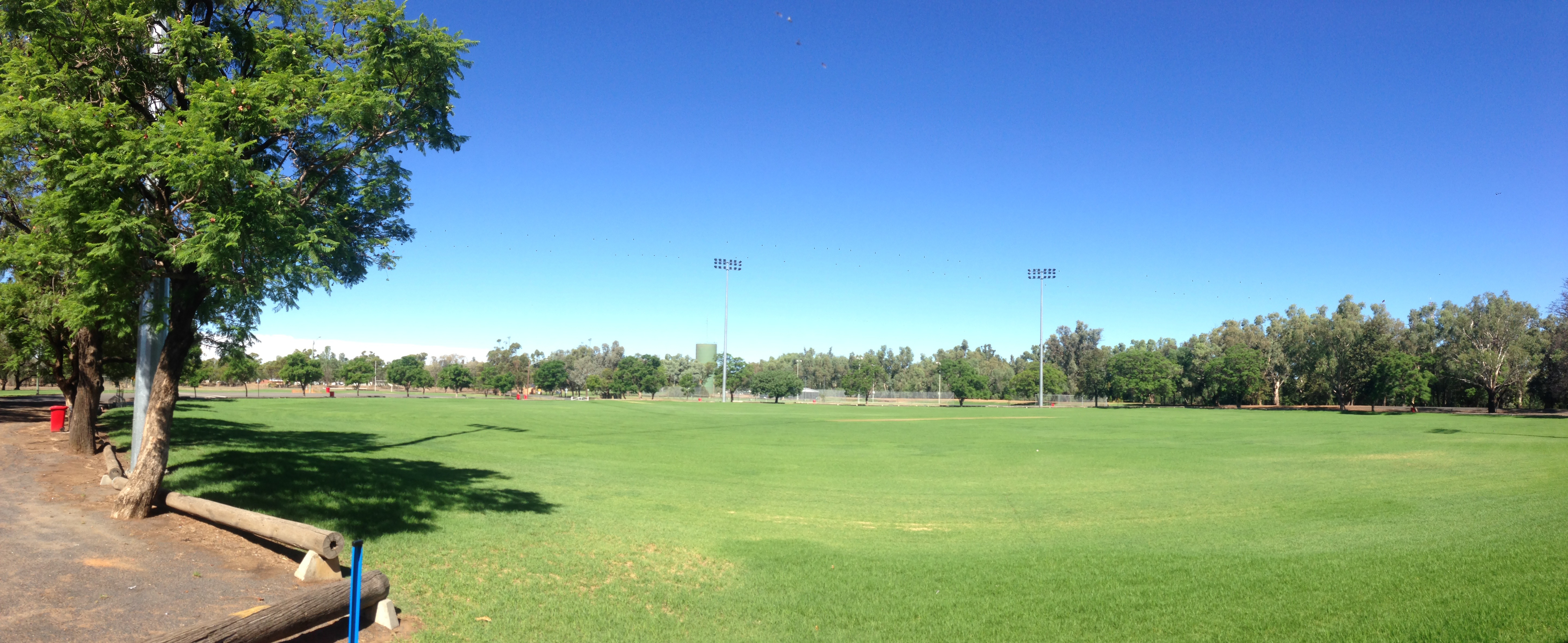 Warren is home to amazing facilities for a small country town, including their sporting facilities.